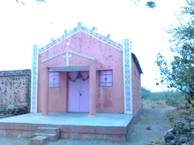 a church in small village at Ahmadnagar